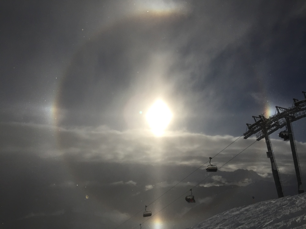 Ein kreisrunder Regenbogen in Serfaus.